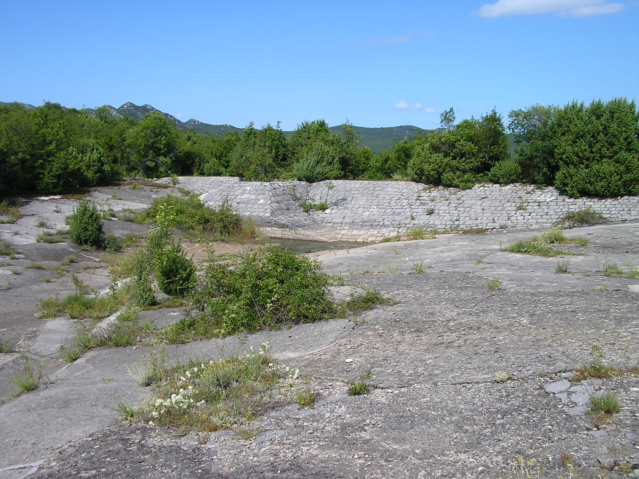 Railway water reservoir in Brštanica